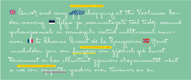 Textprobe of script typeface FF Mister K Regular